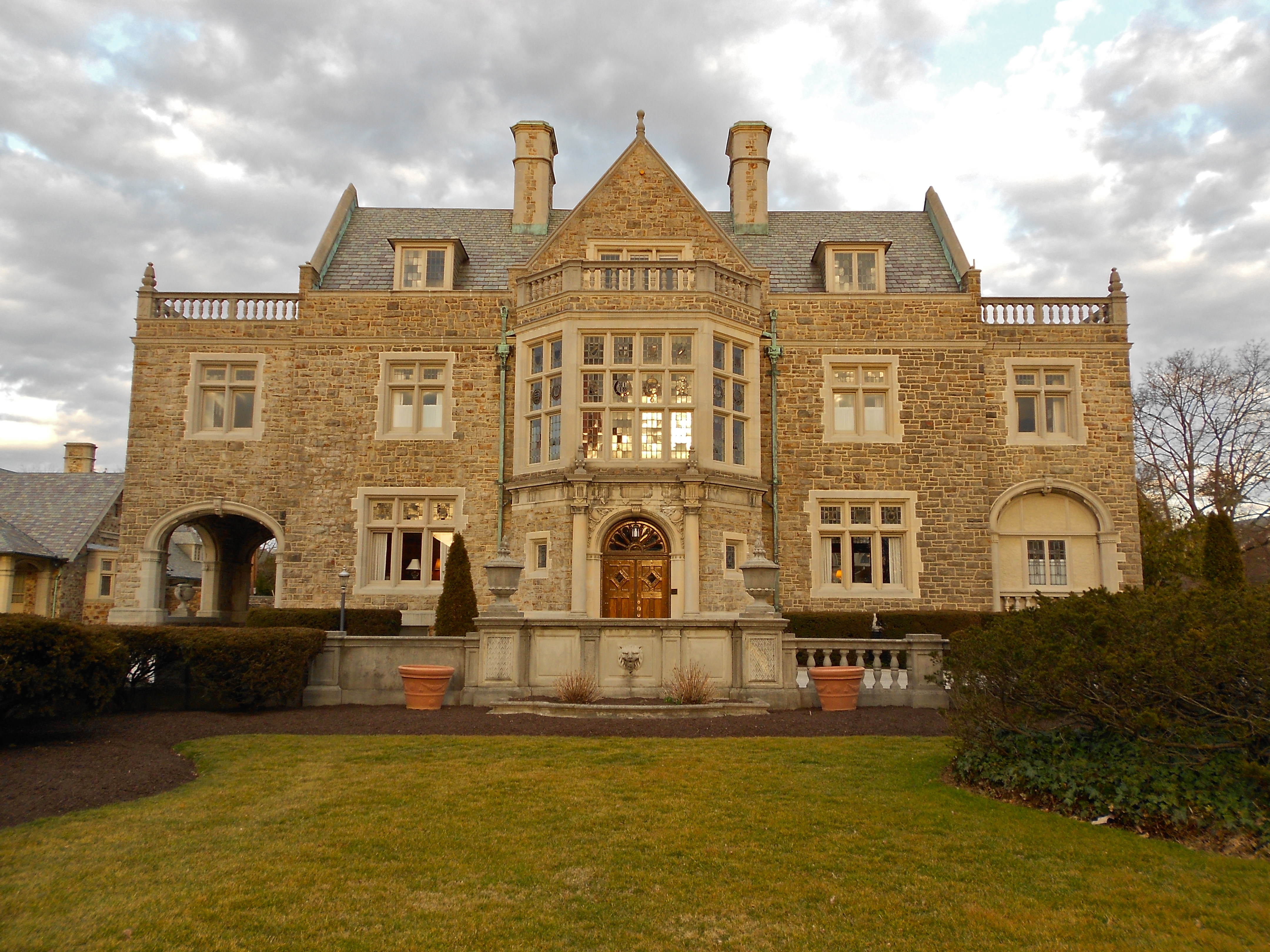 House in Springdale Historic District on the NRHP since August 30, 2001. The historic district is bounded by South George Street, Lombardy Alley, South Queen Street, and Rathon Road, York, York County, Pennsylvania. This is the biggest house, out of many big houses, in the district, almost certainly called "the mansion" on South George Street, now a funeral home.